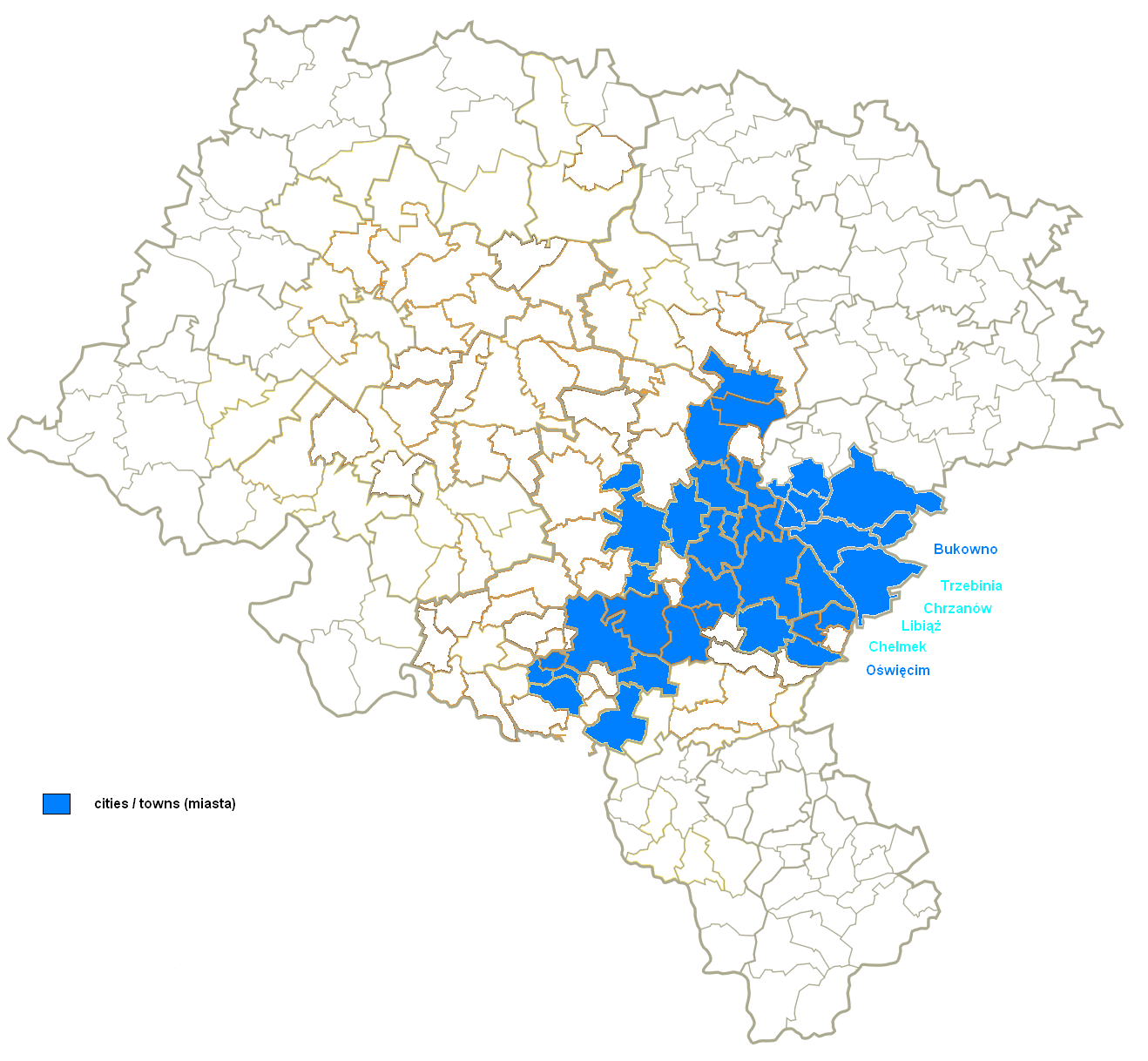 Katowice urban area (Upper Silesian urban area) on map of Silesian Voivodeship